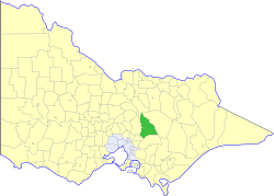 Location of the Shire of Alexandra within Victoria.